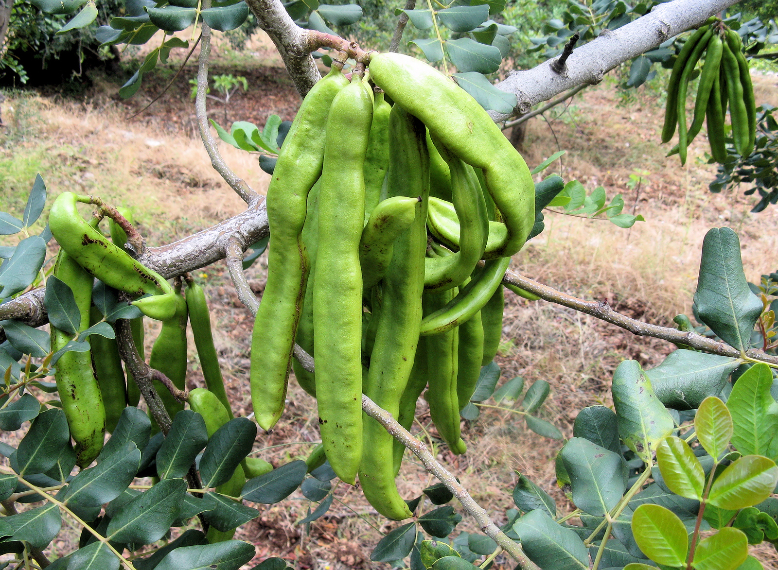 Unripe carob pods in Soller, Majorca, Spain. These Ceratonia siliqua legume pods, photographed in mid-June, are about 6 inches (15 cm) long.